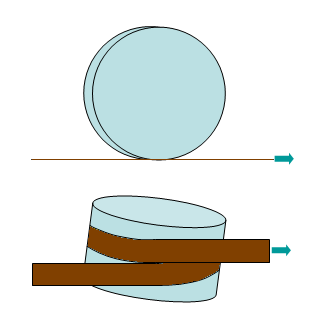 Helical scan alpha threading